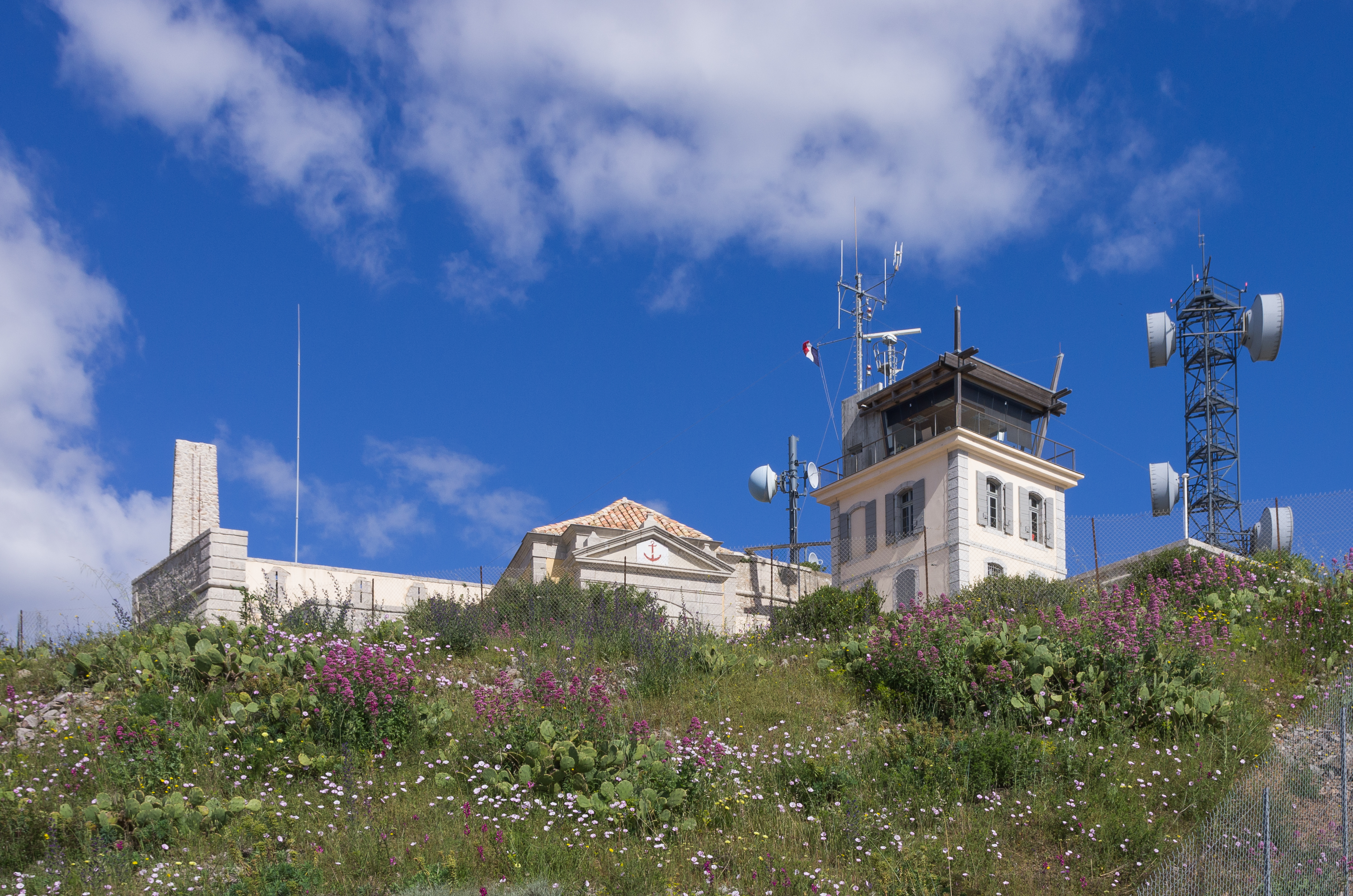 Fort Richelieu. At present a radar station dedicate to maritime control. Sète, Hérault, France. .